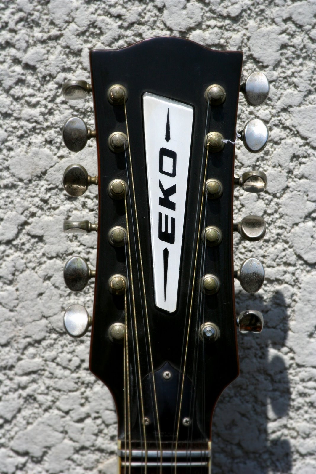 eko 12st 1960 headstocks